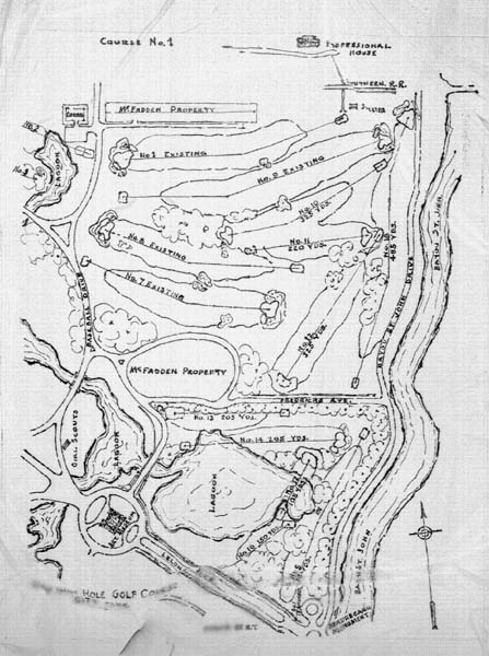 New Orleans City Park: WPA map of new golf course, 1938. Circle with Delgado Museum (now New Orleans Museum of Art) seen towards to left; Bayou St. John along bottom. Original caption: "Golf. Map showing nine hole golf links built by the WPA as a part of the general improvement program in the park. "